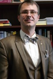 Nikodem Poplawski, 2015